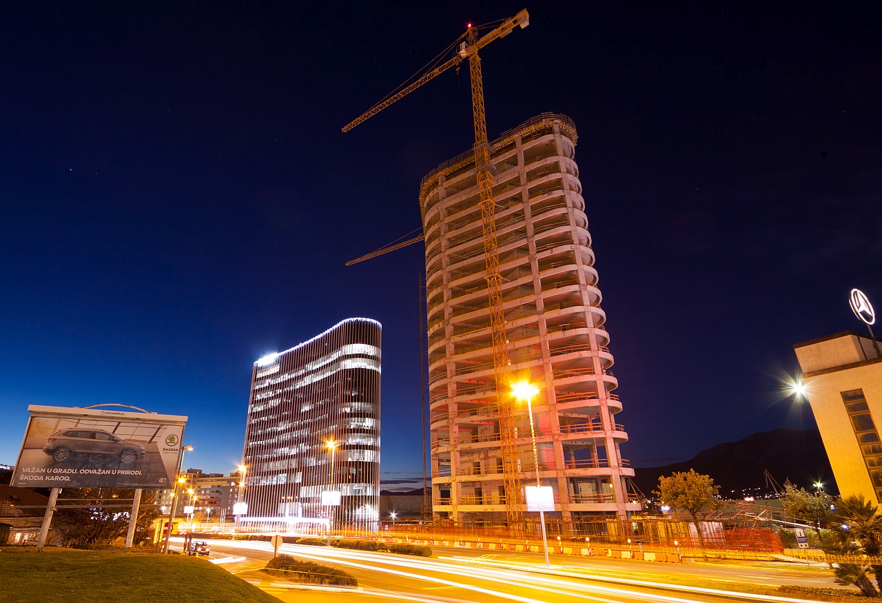 Westgate Tower B night construction